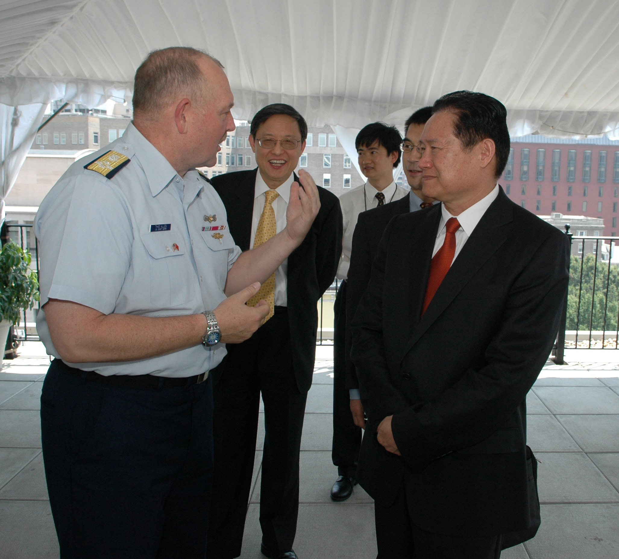 Washington, DC, July 27, 2006 -- Admiral Allen speaks with Minister Zhou Yongkang, State Councilor; Minister of Public Safety and commissioner of National Narcotics Control Commission; People's Republic of China, on the roof of the Hay-Adams Hotel, Washington,D.C. while they waited for the arrival of Secretary Chertoff. Barry Bahler/DHS